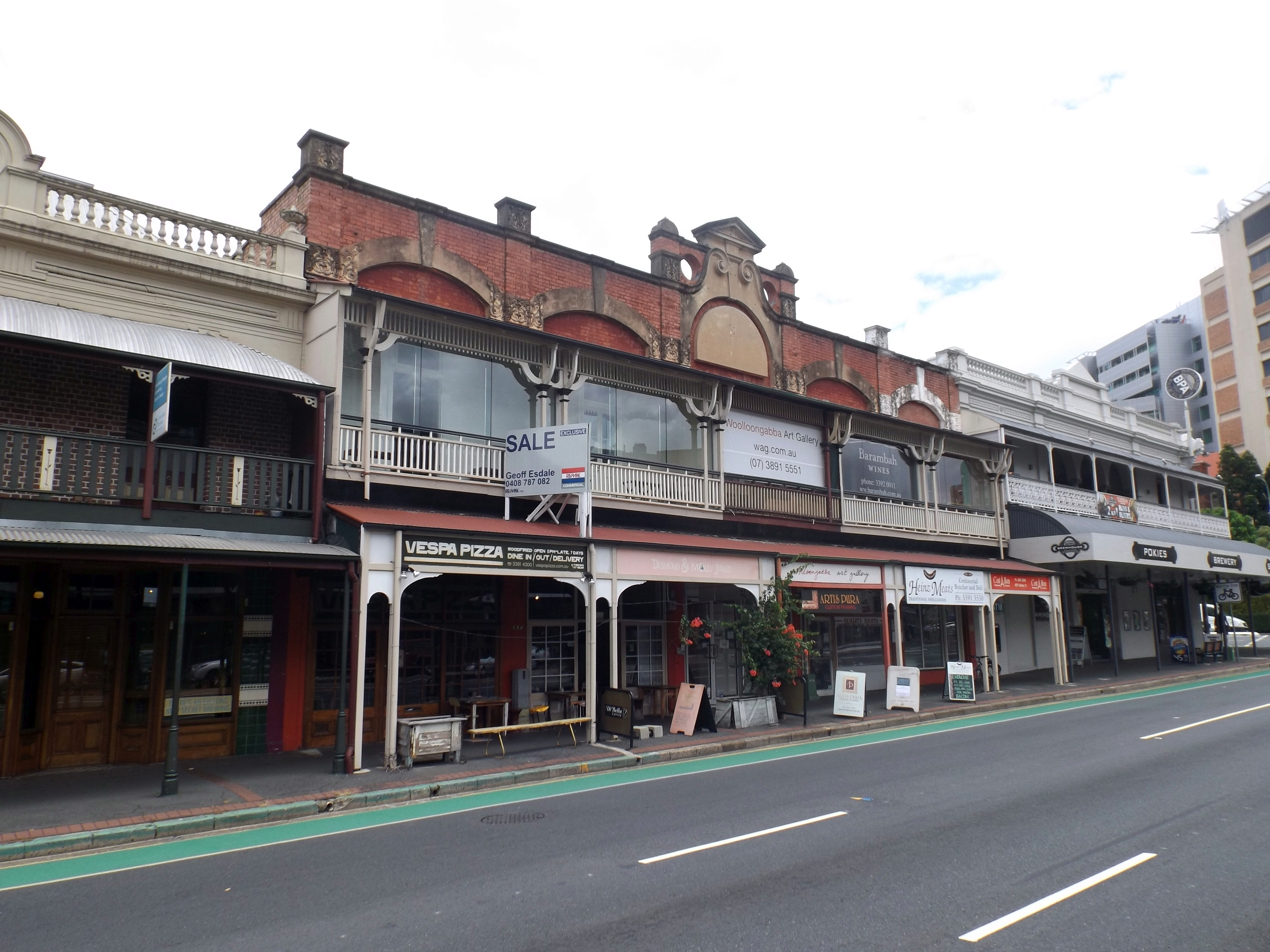 Photo of Shop Row along Stanley Street at Woolloongabba, Brisbane, Queensland, Australia.